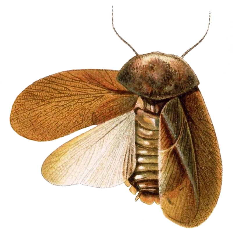 Capucinus cucullatus, probably = Compsodes cucullatus (Saussure & Zehntner, 1894)